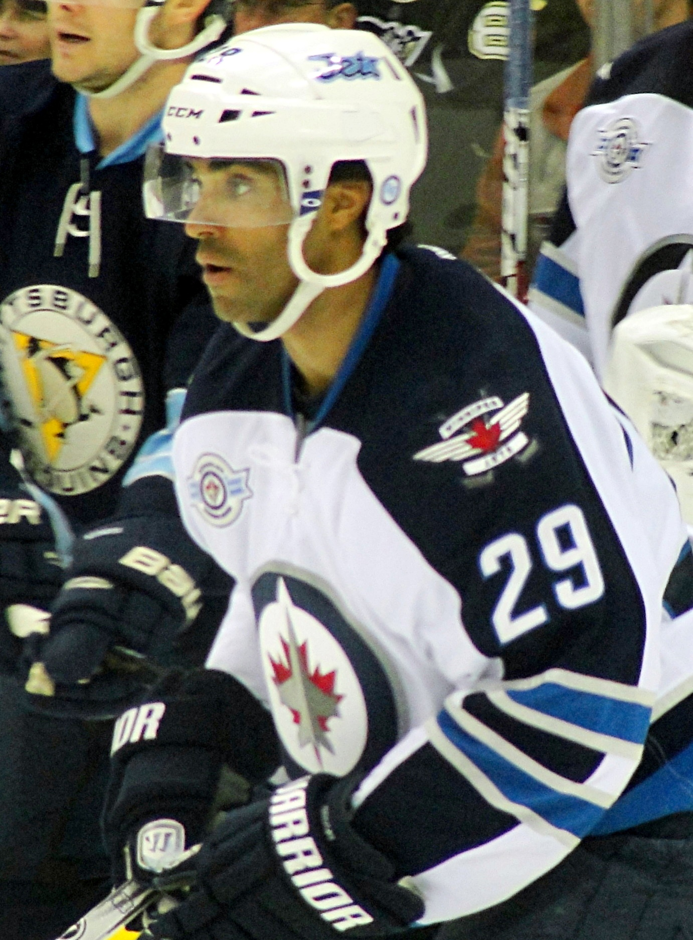 Johnny Oduya of the Winnepeg Jets during a game against the Pittsburgh Penguins, February 11, 2012 at Consol Energy Center in Pittsburgh, PA.